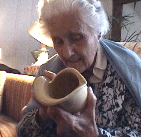 Eva Zeisel, Hungarian industrial designer, potter and centenarians.